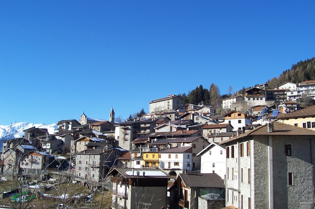 Panorama of Saviore dell'Adamello, Val Camonica, Italia